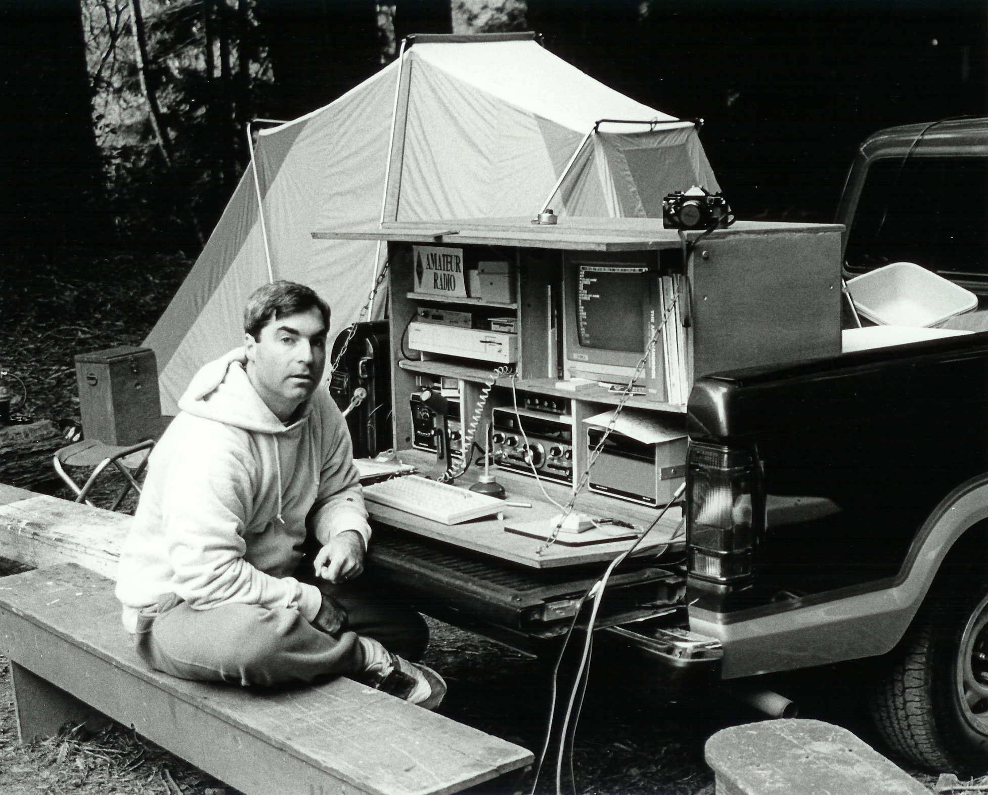 James (Jim) McLaughlin, WA2EWE, Boy Scout outing with Amateur radio. Jim was murdered on April 27, 2011 by an Afghan military pilot in Kabul, Afghanistan.[1]